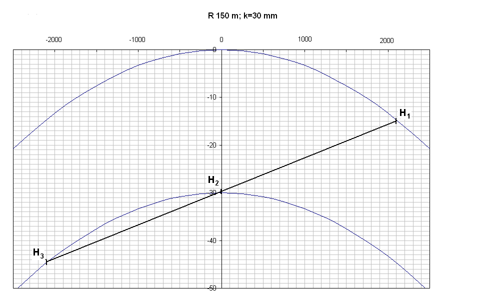 Vogel´s method for investigation of geometrical position of the bogie in a curve. In this example is shown the bogie of ČD class 781 with wheelbase 2x 2100 mm in a curve R = 150 m with the lateral play 30 mm. Passing this curve is geometrically possible, with contracted flange of middle axle (usually 15 mm) without problems. Česky: Geometrické vyšetření průjezdu obloukem Vogelovou metodou. Podvozek odpovídá řadě 781 ČD, rozvor 2x 2100 mm. Oblouk R = 150 m, šířka kolejového kanálu 30 mm. Průjezd je možný, pokud bude ještě zeslaben okolek prostřední nápravy, pak zcela bez problémů.